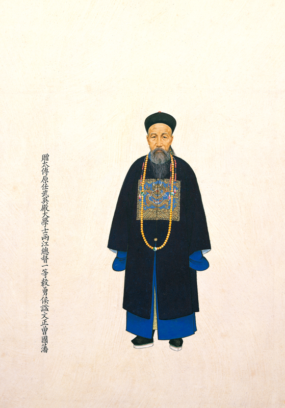 平定粵匪功臣像─曾國藩像 Portrait of Zeng Guofan From The Portraits of Generals and Officials of the Qing Dynasty